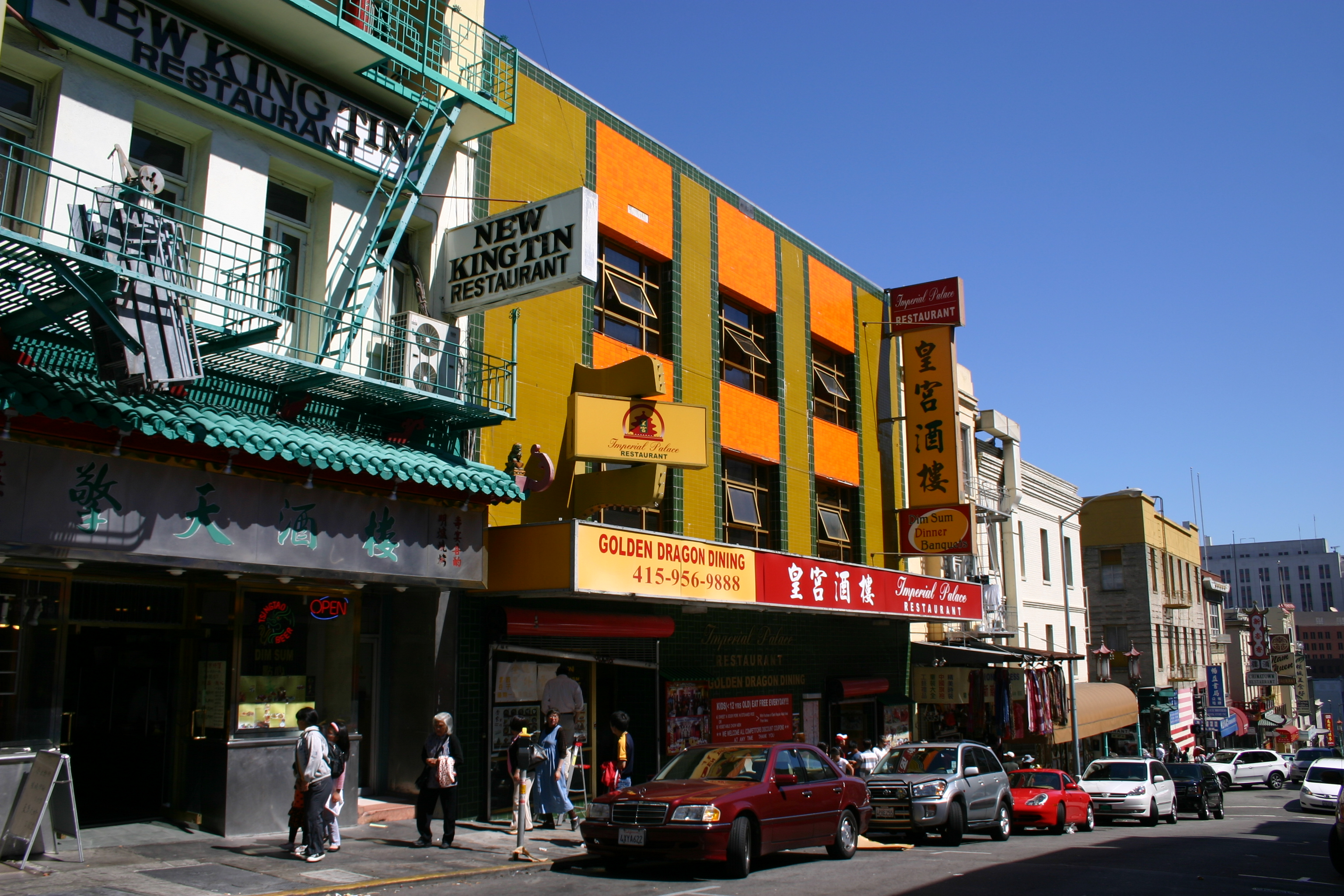 Chinatown